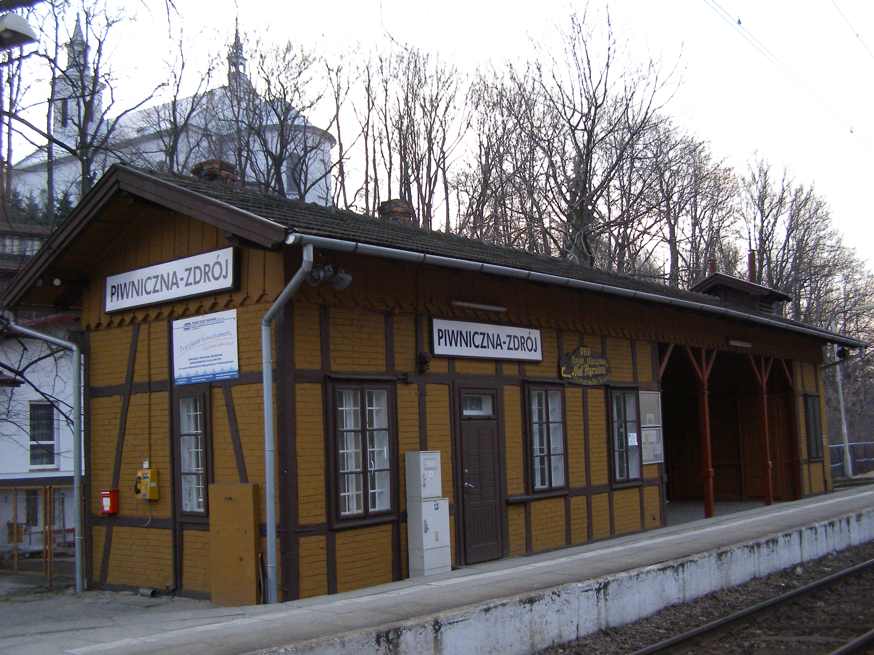 The Piwniczna-Zdrój train stop